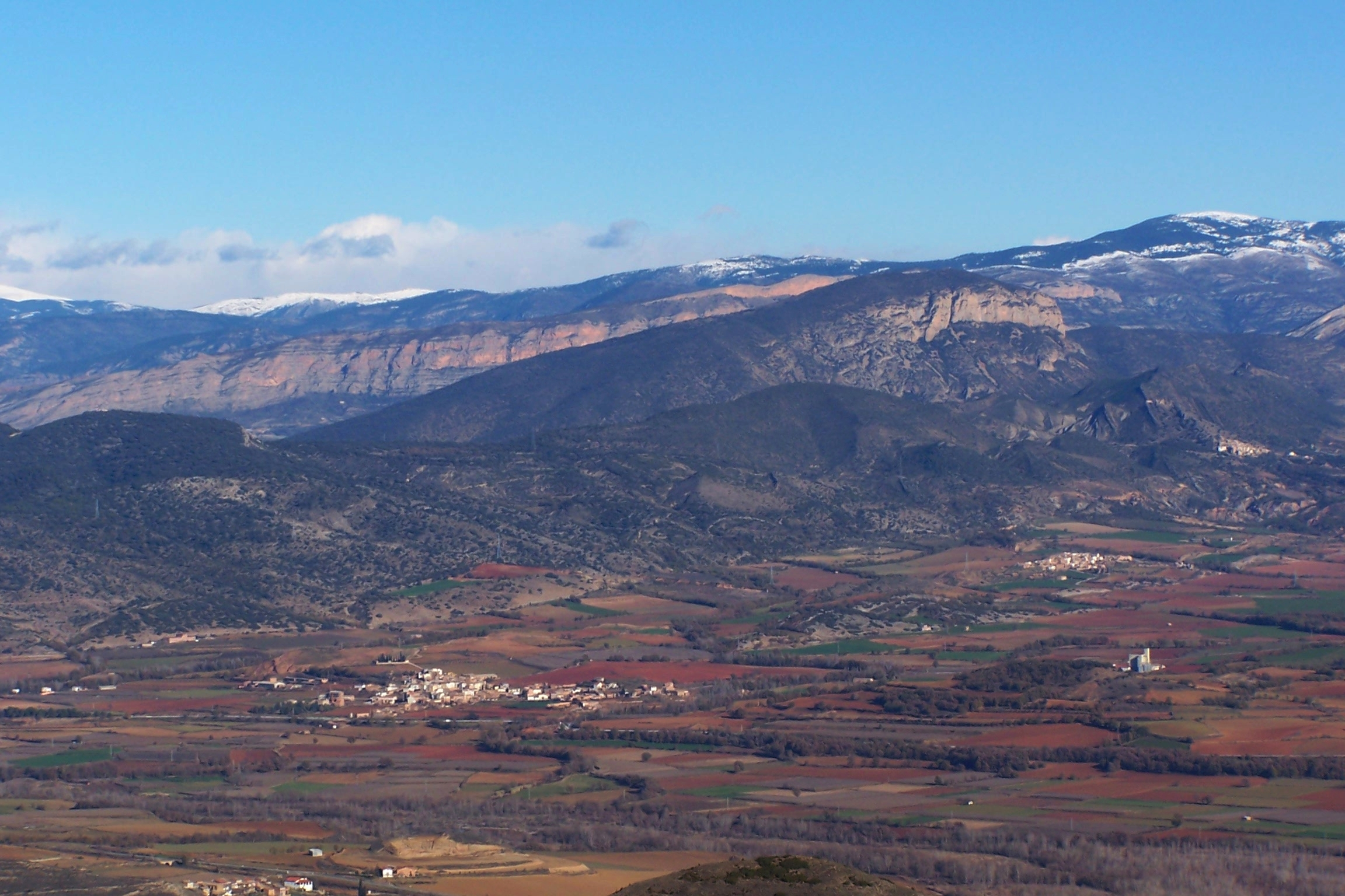 View of the central part of the Tremp Basin with Sant Corneli anticline in the background, looking northeast